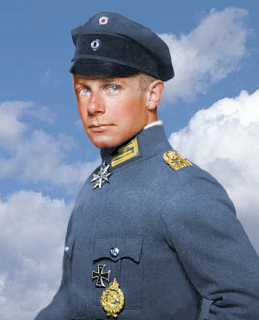 Original Wikipedia image (Image:Ernst Udet.jpg) recoloured using PhotoShop by myself